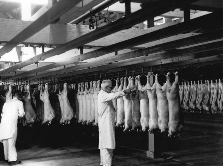 Frozen mutton at the Freezing Works, Hawke's Bay Farmers Meat Co., Hastings, January 1947. New Zealand's first frozen meat export was sent to England on 15 February 1882. This was a turning point in New Zealand's economic and farming history, providing a profitable outlet for the country's surplus sheep by the mid-1890s, lifting the country out of economic depression. The industry grew quickly: in 1895 New Zealand exported 2.3 million sheep carcasses; in 1900, 3.3 million; and in 1910, 5.8 million. Frozen exports of lamb, butter and cheese would flourish as New Zealand established itself as 'Britain's farmyard'. The 1882 voyage was made on the Dunedin, but it was not all plain sailing. Sparks from the engine that drove the refrigerator caught the sails alight twice. Captain Whitson had to clear out the ducts for the cold air that kept the cargo frozen as they became blocked by ice. Crew members had to pull Whitson out of the hold by a rope tied around his ankles, and resuscitate him on deck. In 1890, while en route to the United Kingdom, the Dunedin disappeared, along with the 35 on board. It's likely that the ship hit an iceberg off Cape Horn. The photograph above demonstrates the legacy of that first sailing in 1882. Frozen shipping has been, and remains an important part of New Zealand's economy, and way of life. The photograph shows frozen mutton at the Freezing Works, Hawke's Bay Farmers Meat Co., Hastings, January 1947. Further information can be found here Archives Reference: AAQT 6539 34/A1812 (R21010589) Material from Archives New Zealand